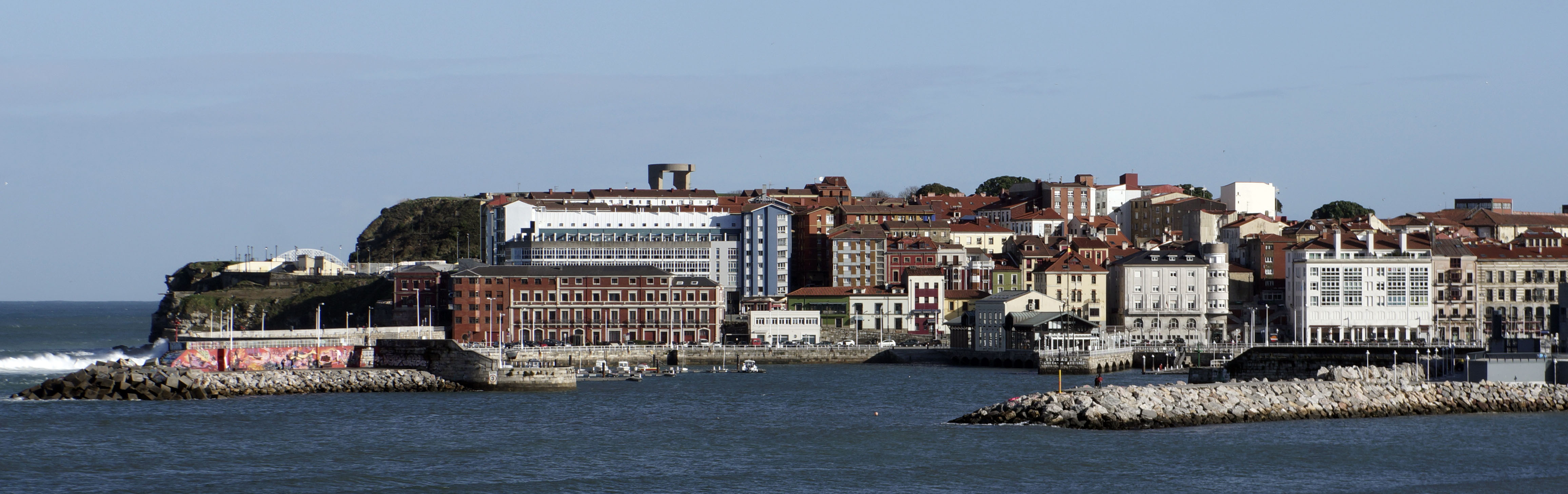 Cimadevilla quarter of Gijón, Asturias (Spain)